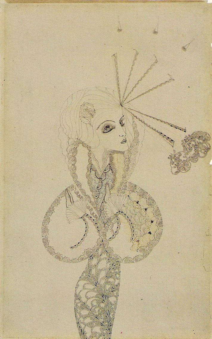 Het Schoone Beeld d. C. de Nerée tot Babberich